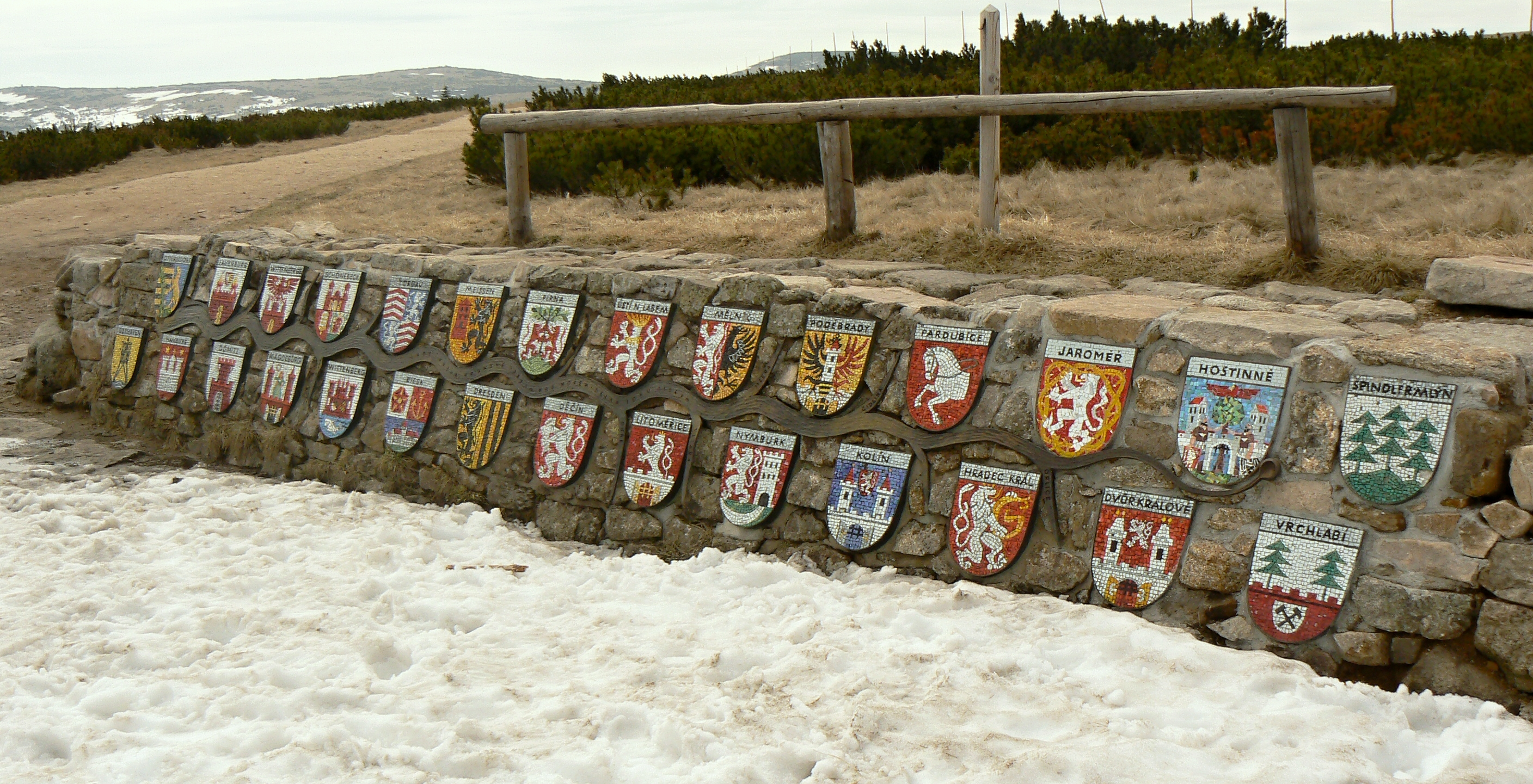 Surroundin of the spring of the river Labe (Elbe) in Krknoše (or Giant Mountains) national park